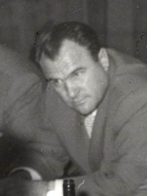 Danilo Kekić is a politician